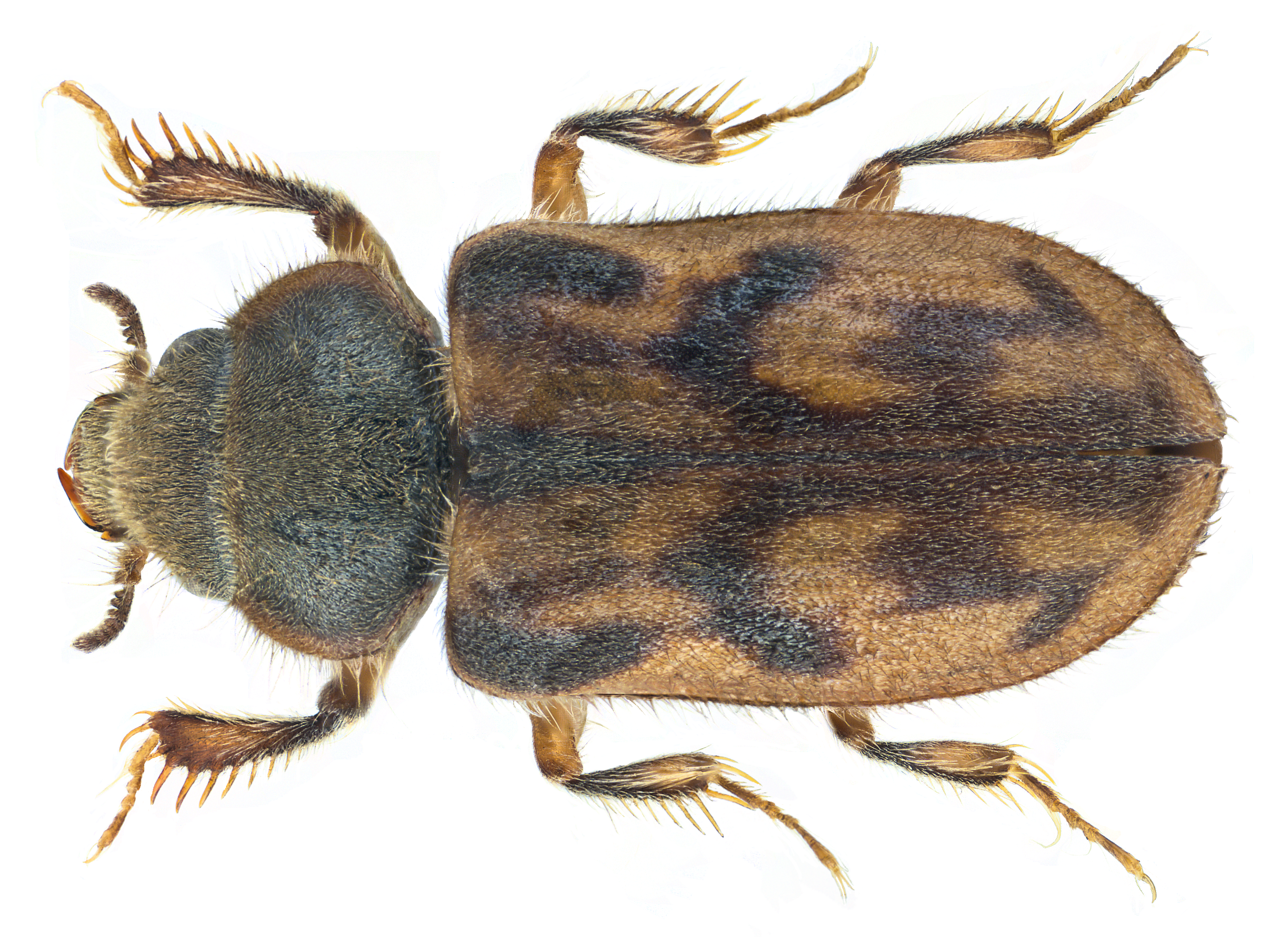 Family: Heteroceridae Size: 4,5 mm (3,0 to 4,5 mm) Origin: Europe Ecology: larvae and beetles live in dug tubes on banks of waters Location: Germany, Bavaria, Upper Franconia, Rudolphstein/Pottiga, Saale river leg.det. U.Schmidt, 1.V.2000 Photo: U.Schmidt, 2015